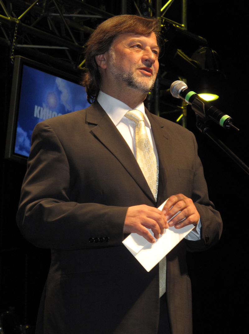 The Russian composer Alexei Rybnikov